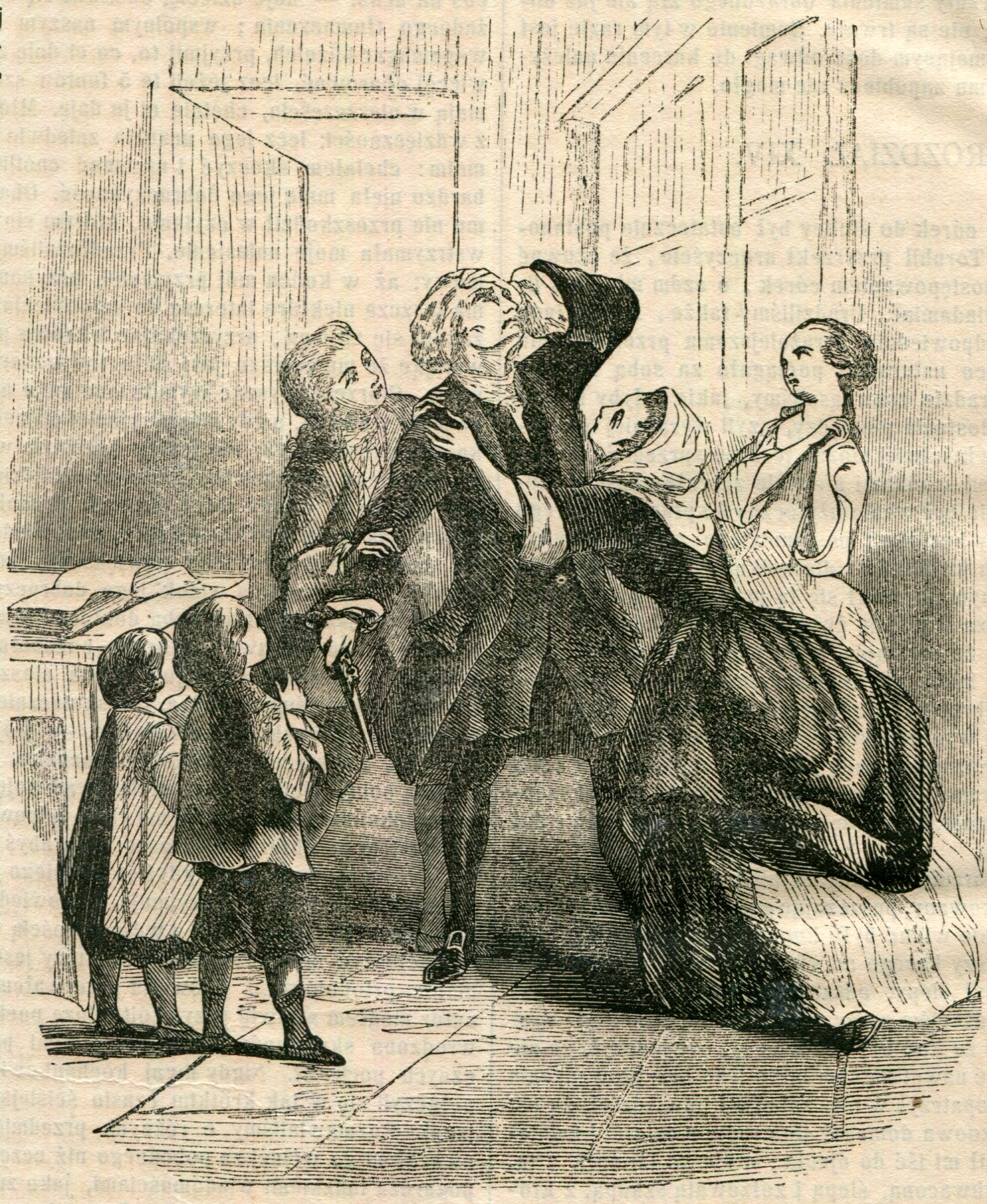 Illustration from The Vicar of Wakefield by O. Goldsmith (engraving by É. Frère)